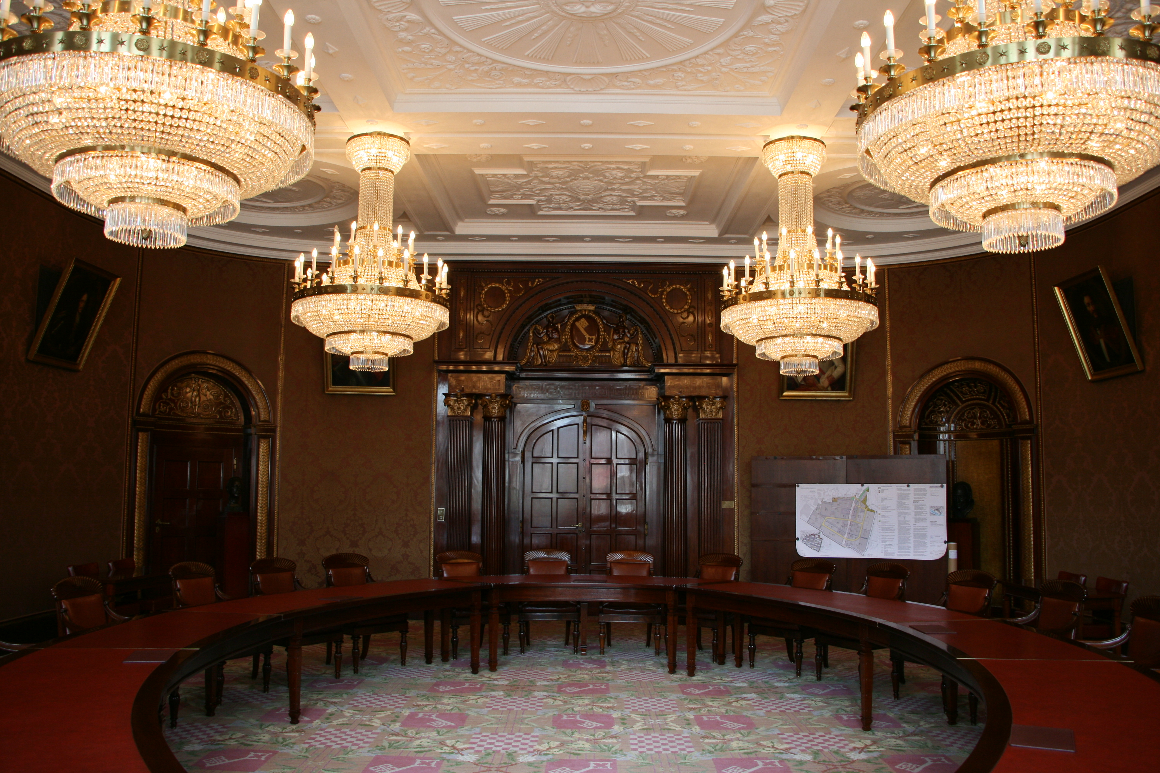 Senate room in the town hall of Bremen, Germany